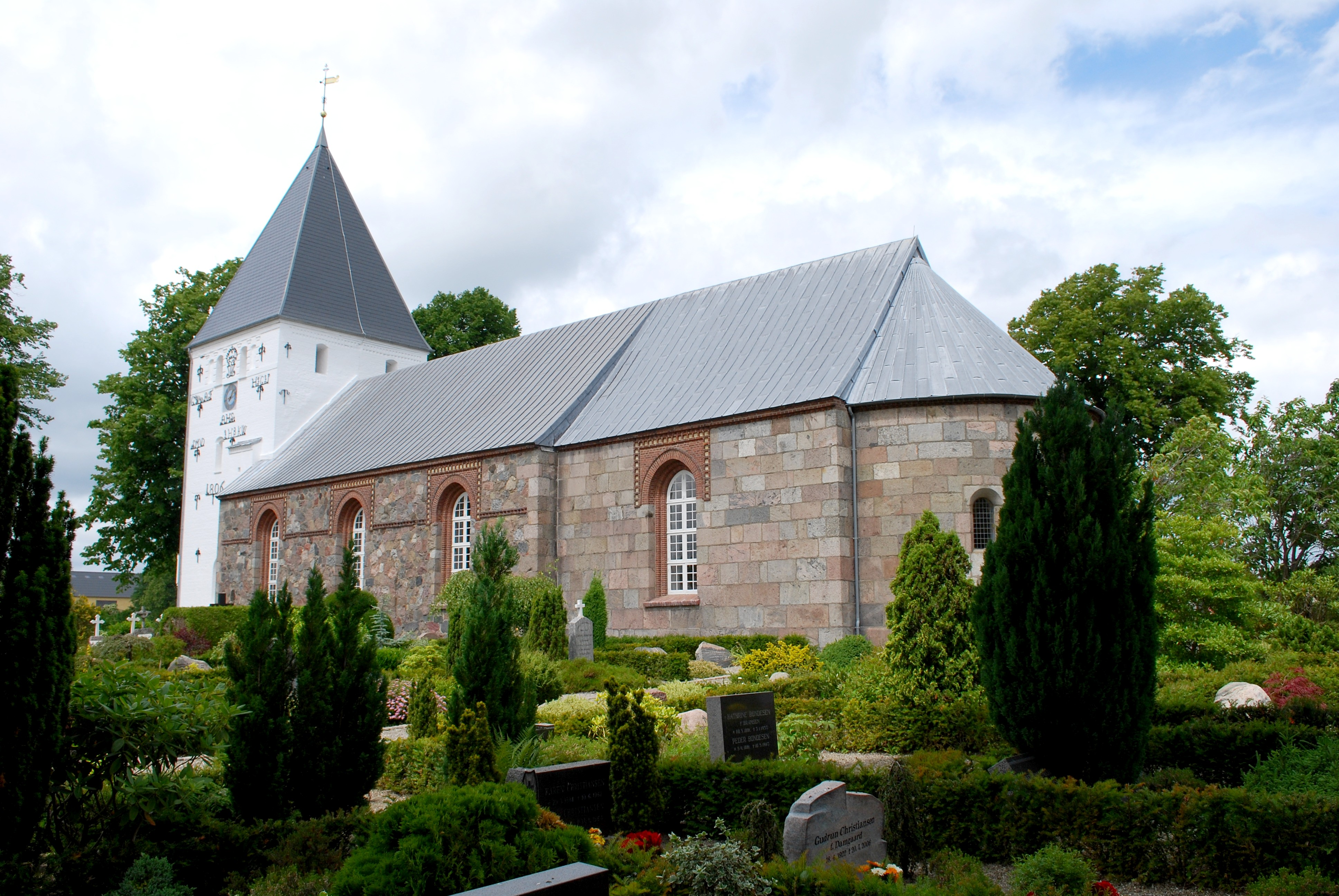 Sønder Stenderup Kirke, Kolding Kommune